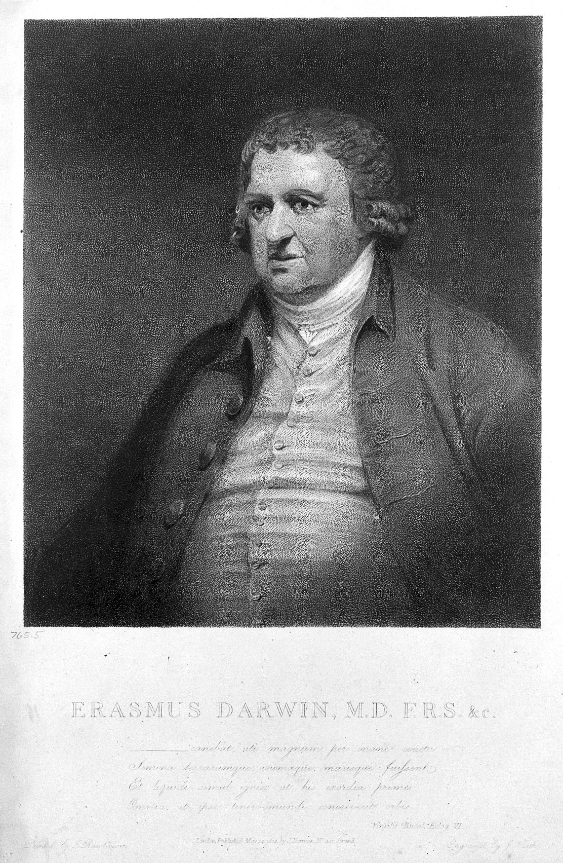 Portrait of Erasmus Darwin Iconographic Collections Keywords: Erasmus Darwin; J. Heath; J. Rawlinson